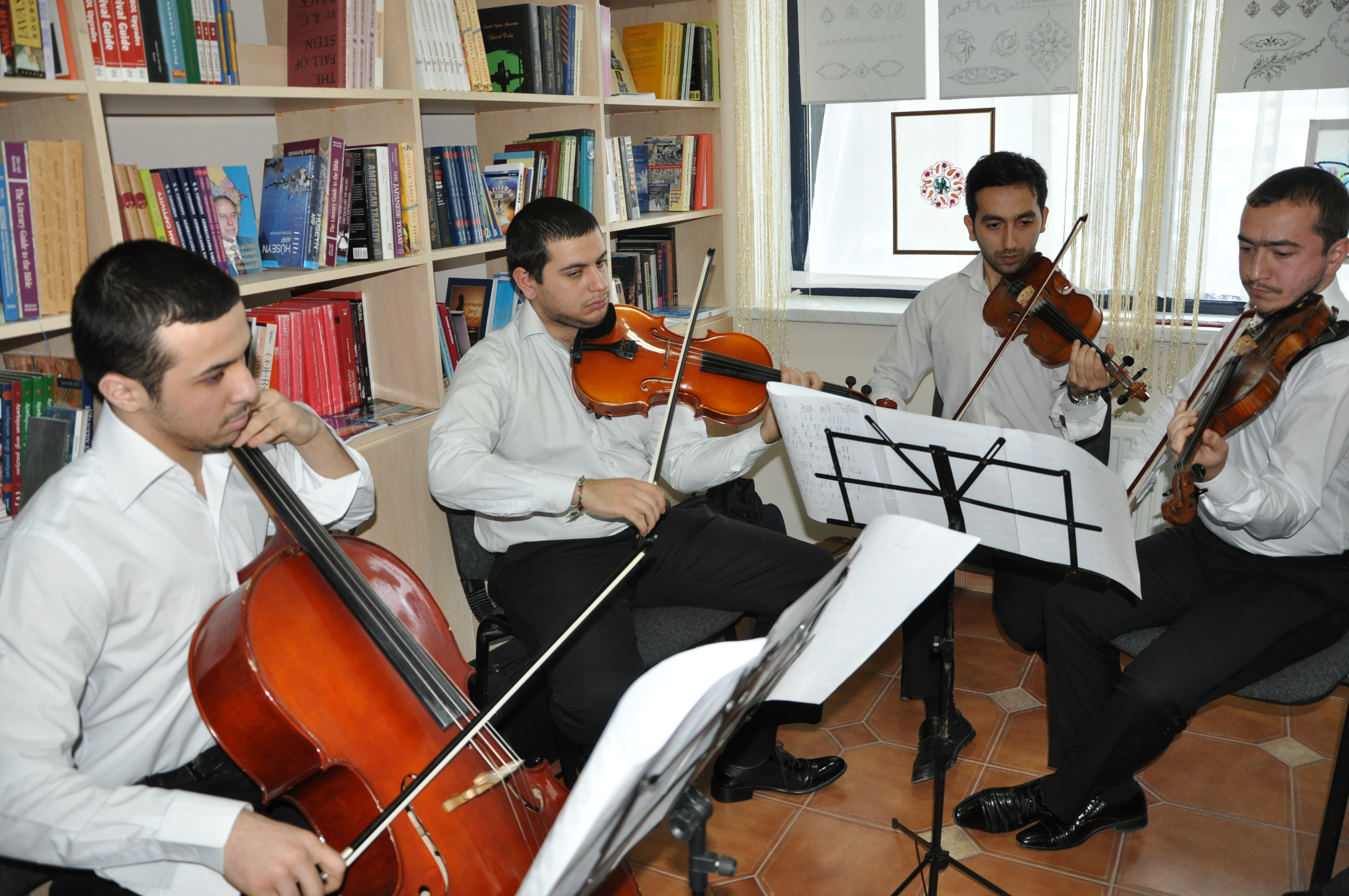 String quartet performance in National Cultural Center